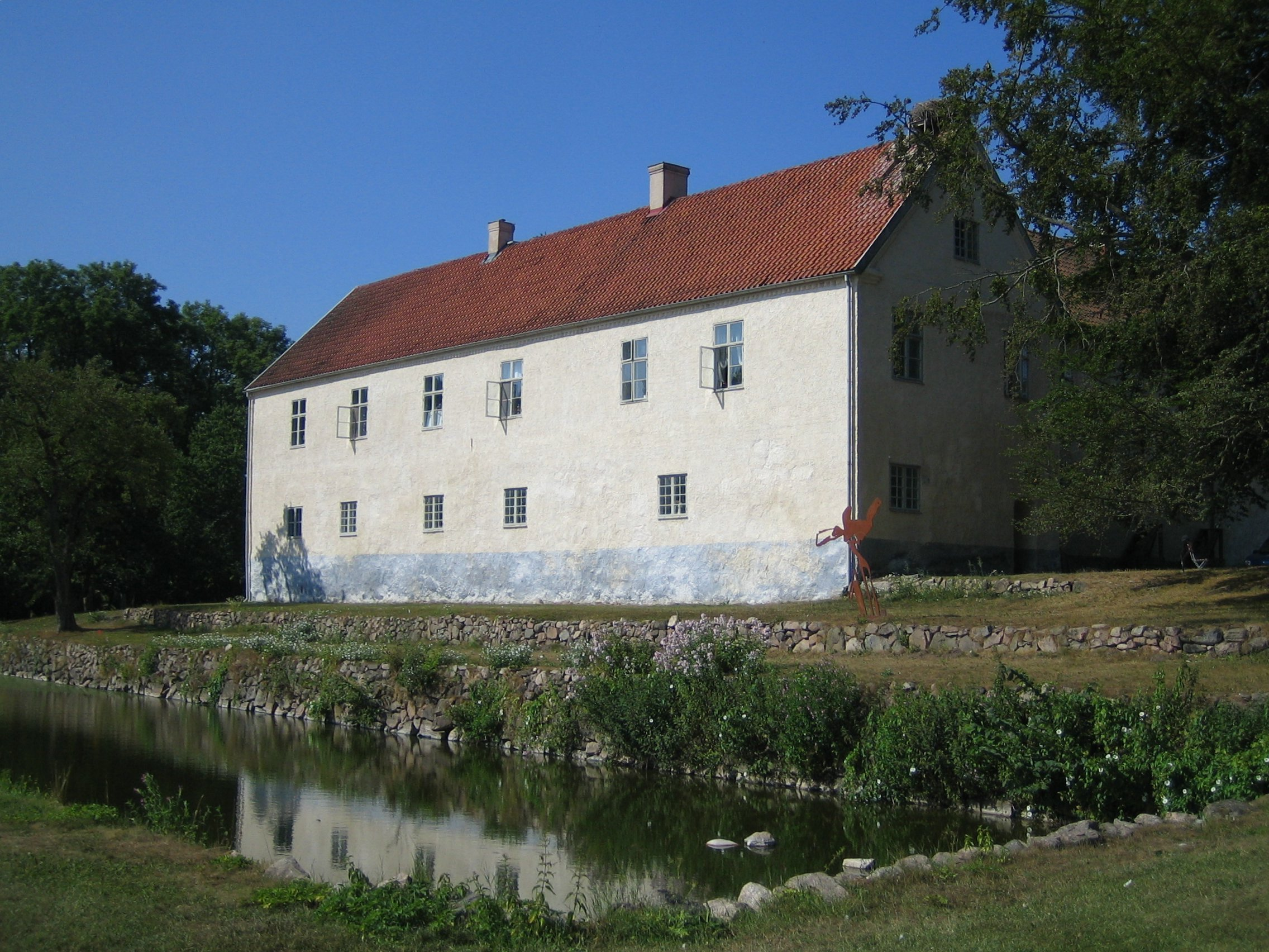 Picture of Tommarps kunggård in Scania, Sweden. It is a royal estate erected in the mid-16th century.